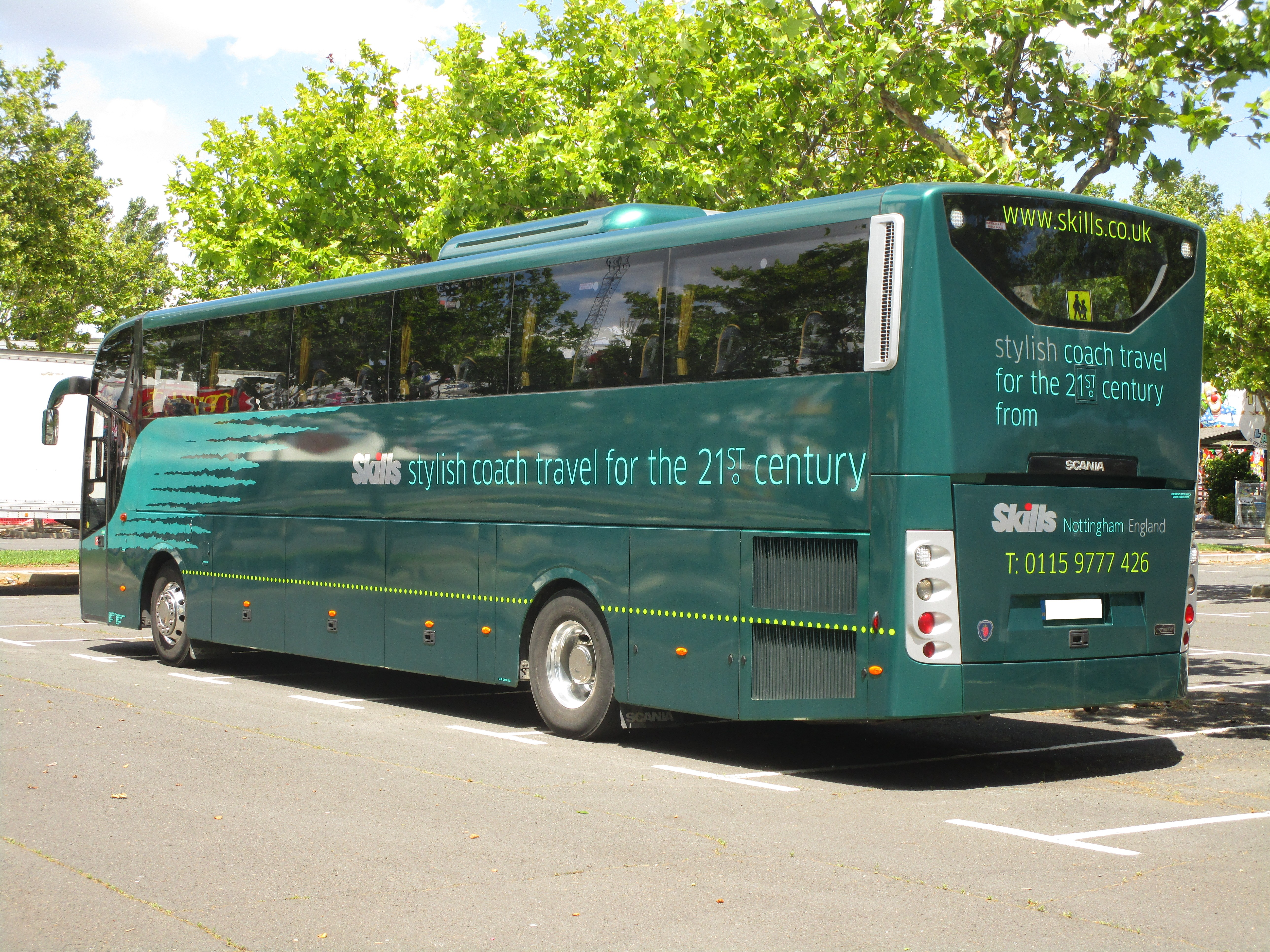 A Scania OmniExpress (Skills) on a parking (Cap d’Agde, France) on June 30, 2017.